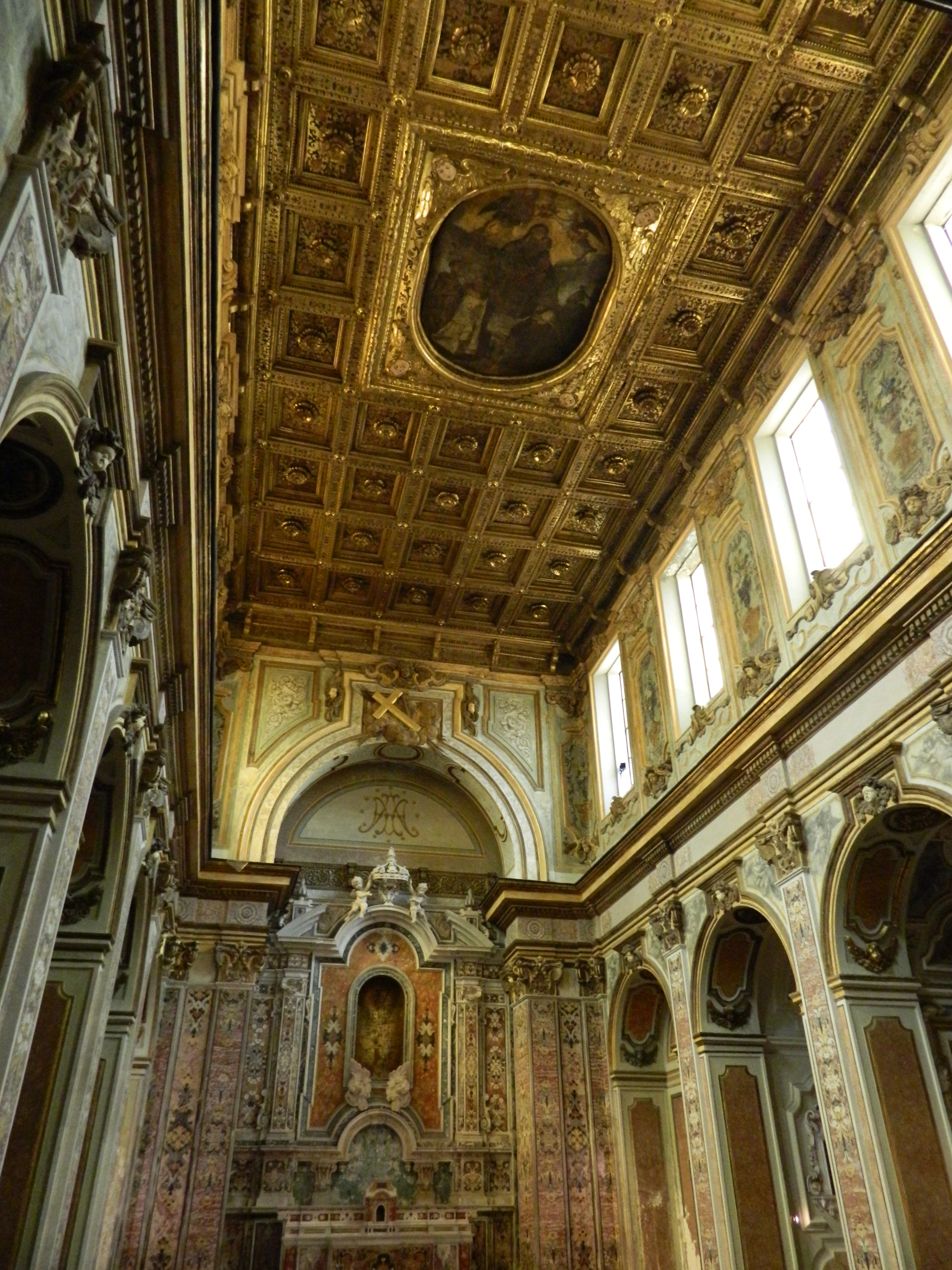 Chiesa della Croce di Lucca - Interno